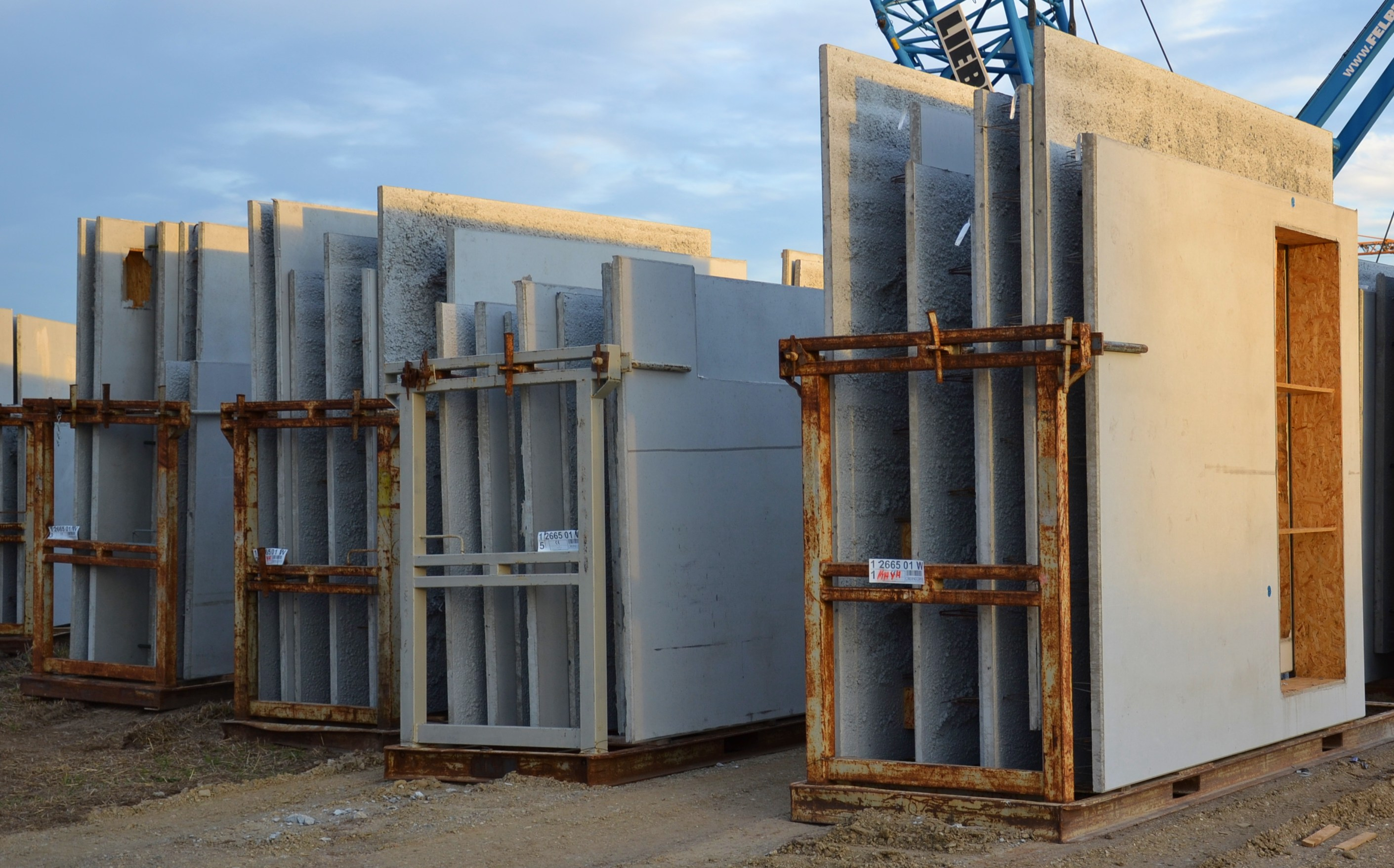 Concret Walls